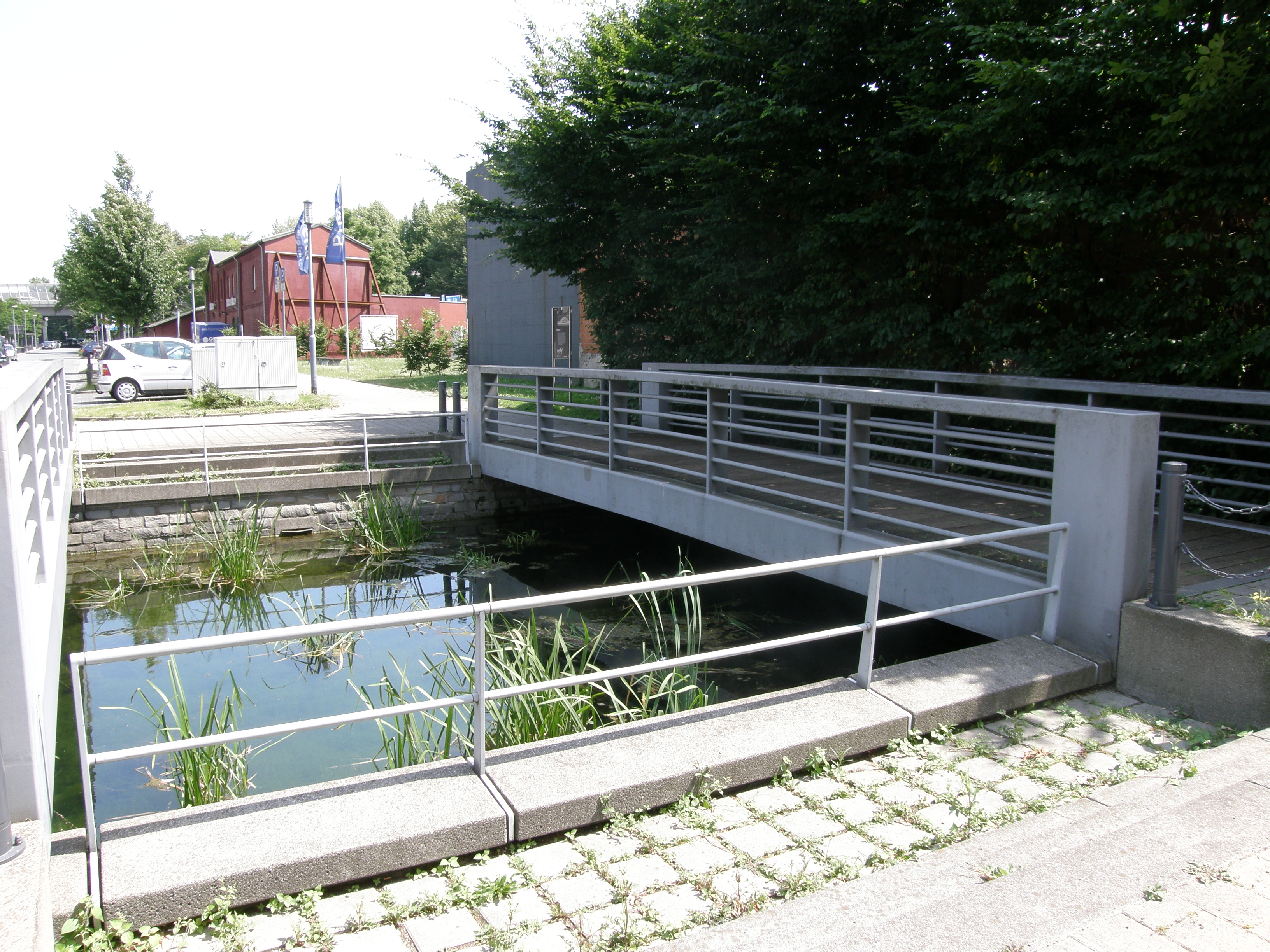 Holzgracht in Duisburg